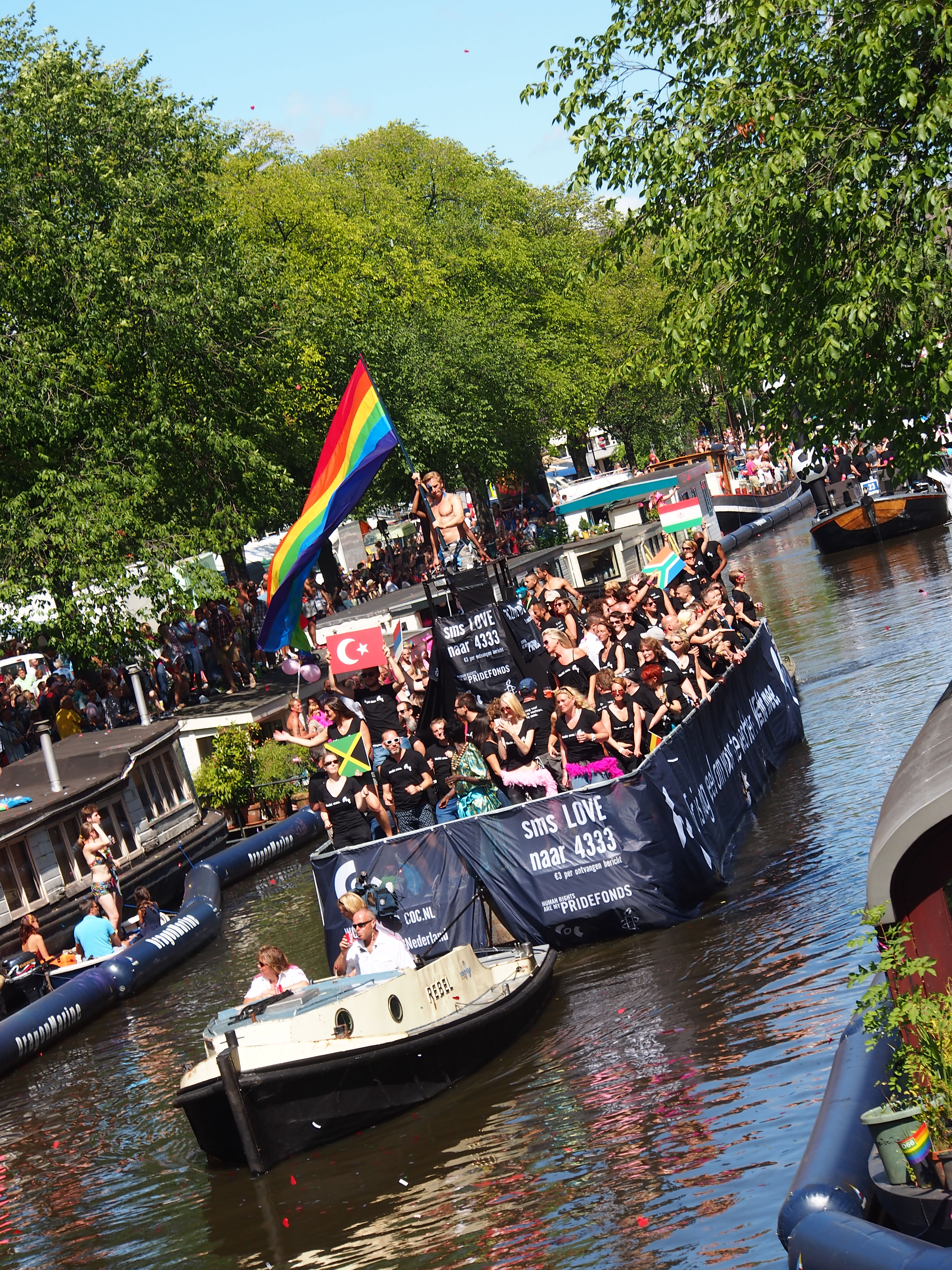 Photographed at the Prinsengracht Amsterdam, the Netherlands.